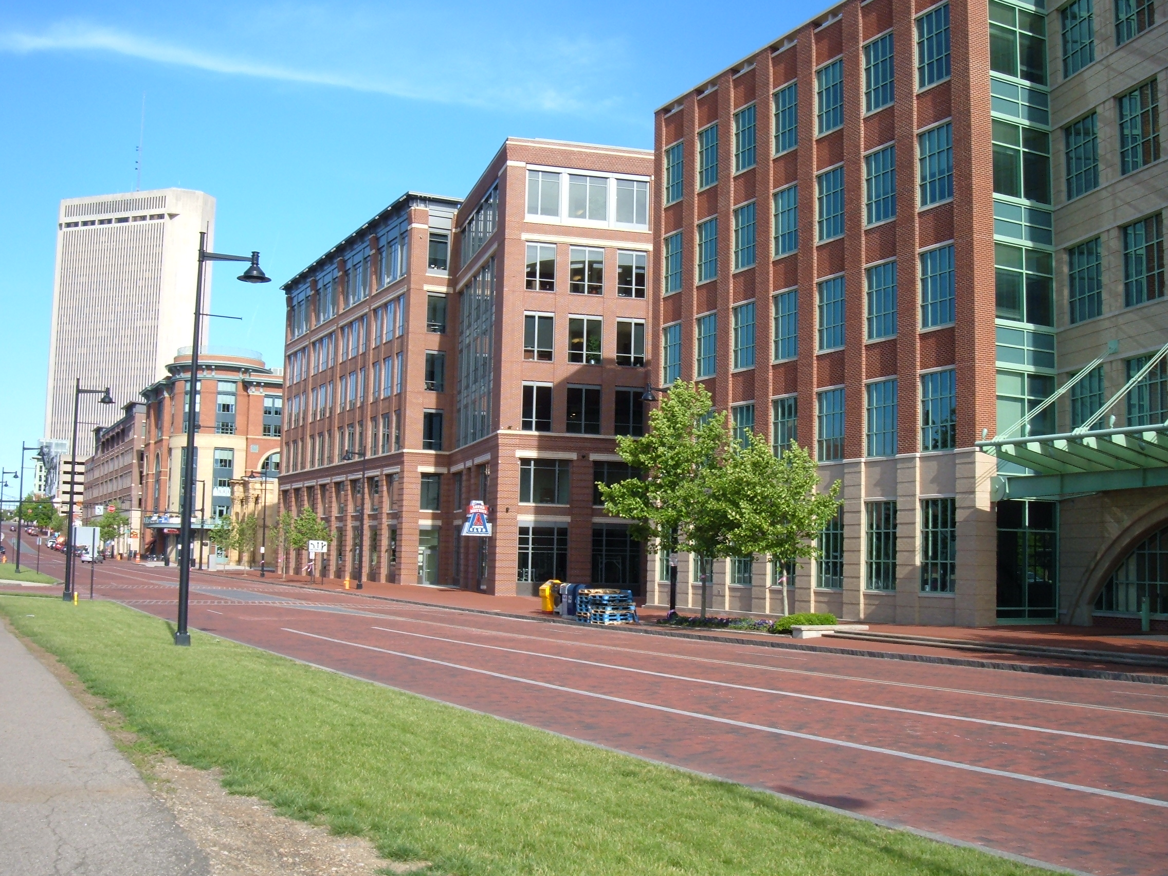 Arena District, Columbus, Ohio, USA. Nationwide Blvd looking East.